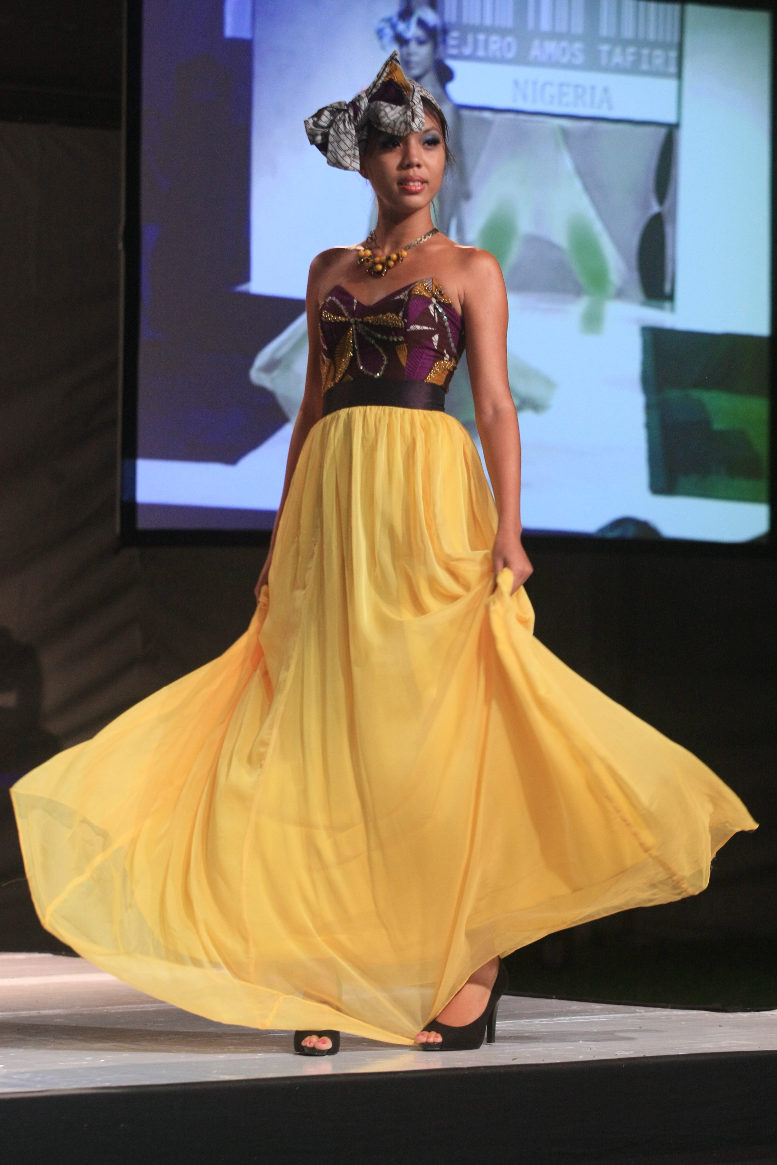 Fashion from the USAID-supported Origin Africa Fiber to Fashion Event in Mauritius, March 2011. Photo credit: USAID/COMPETE.